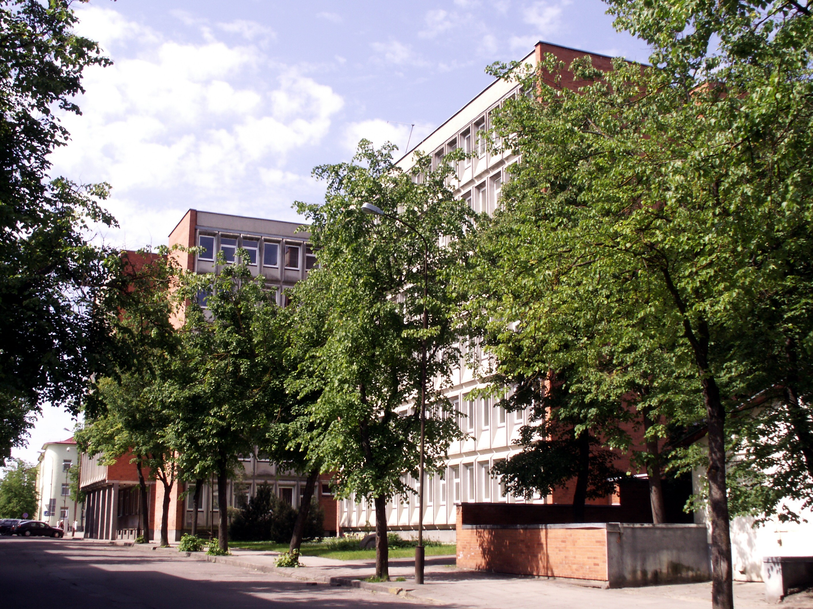 Šiauliai university, Lithuania